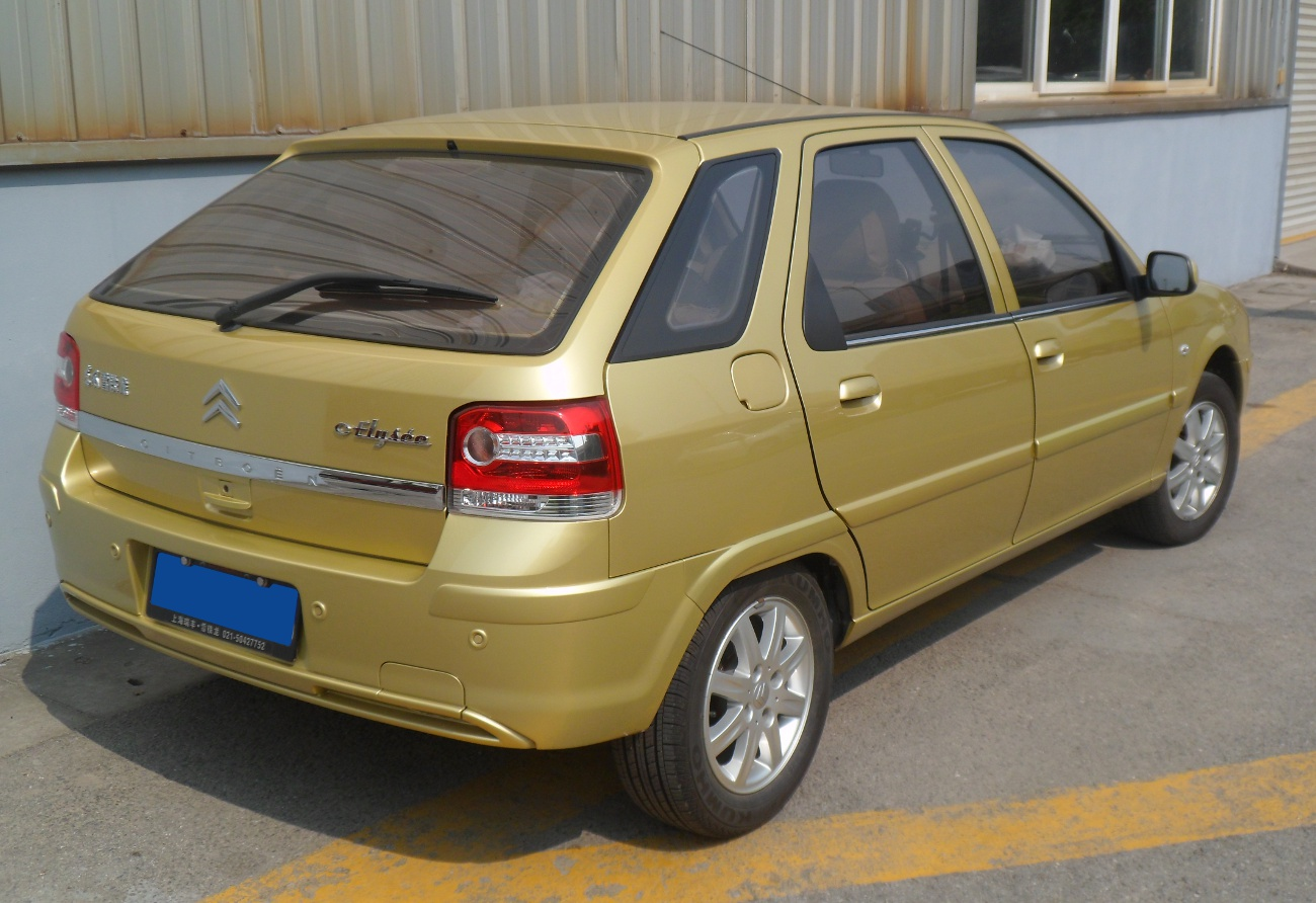 Citroën C-Elysée hatch photographed in Shanghai, China.